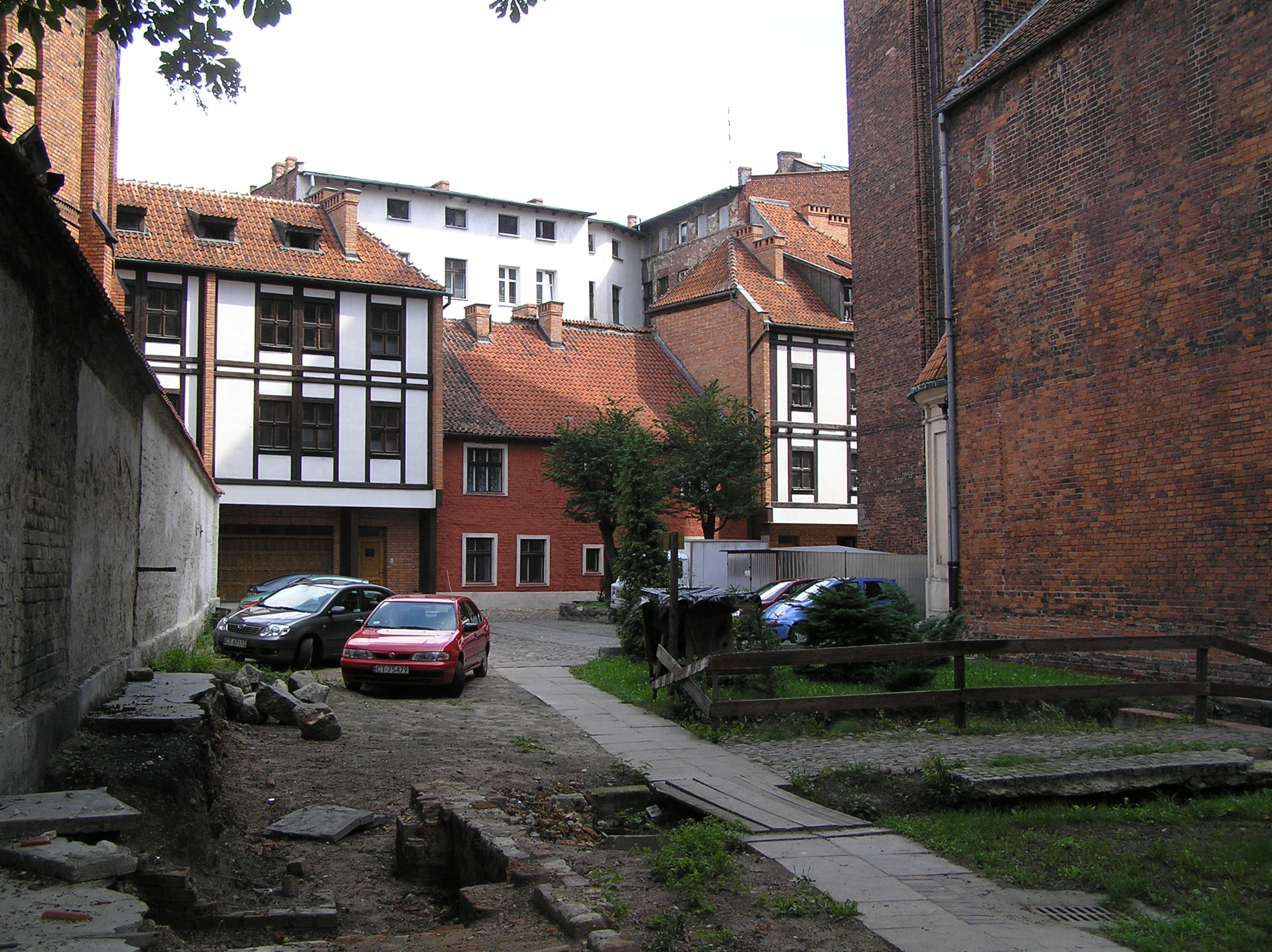 Toruń, Church of Assumption of Virgin Mary, former monastic buildings east from the church